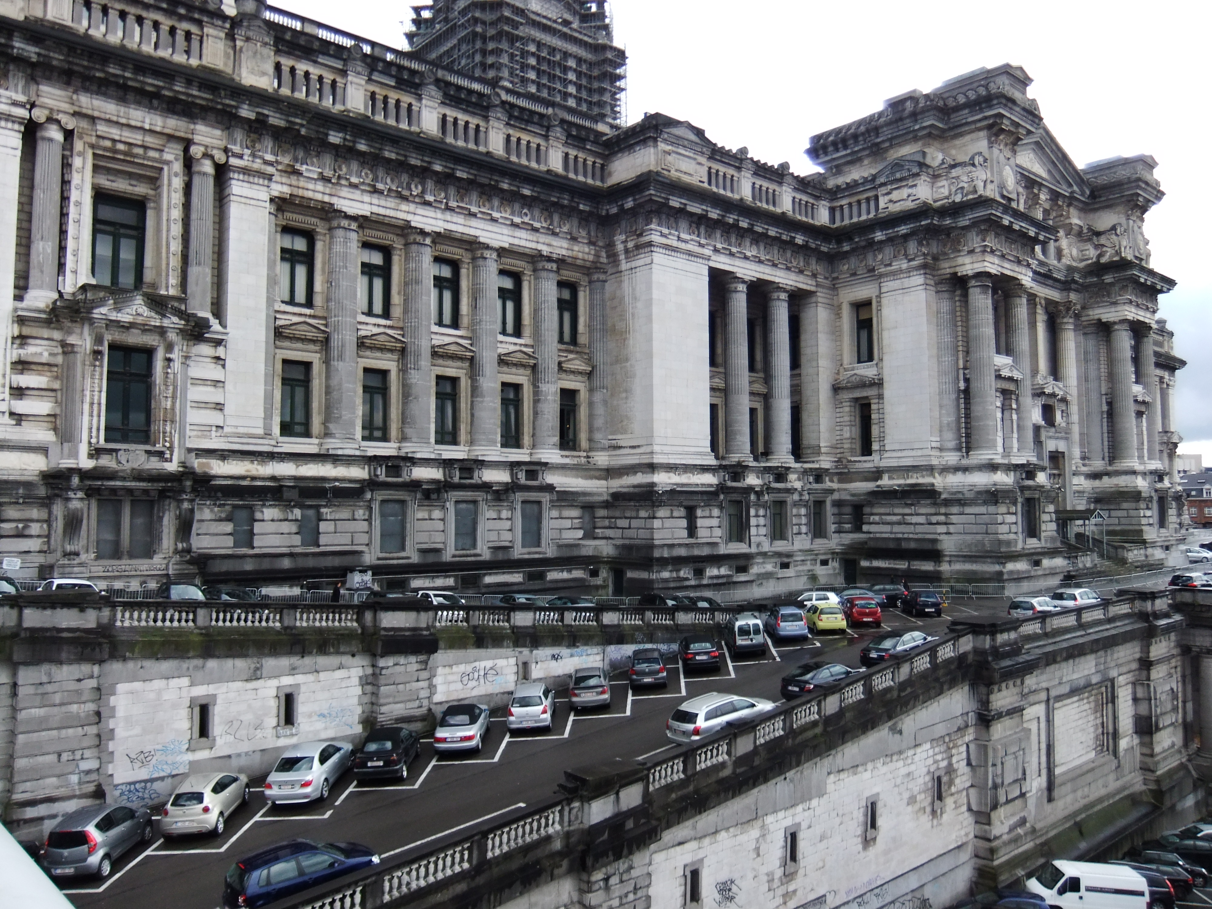 Side view of the Palais de Justice in Brussels. Source of the picture is